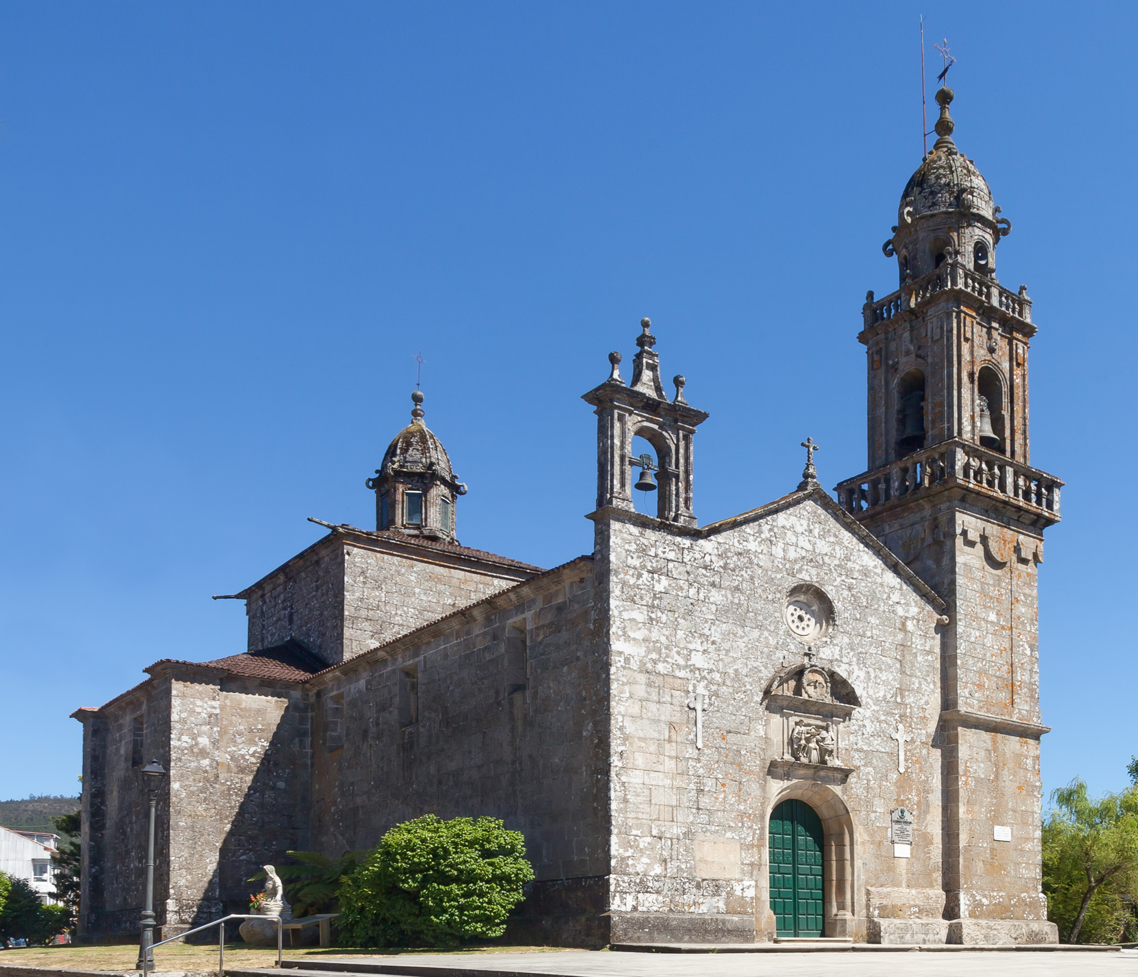 Church of Santa María dos Baños, Cuntis, Galicia (Spain).